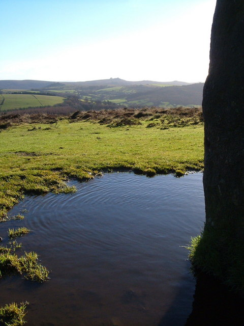 From the Hameldown Memorial. A view past Hound Tor towards Hay Tor, from the shadow of 282153.